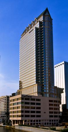 100 North Tampa, the tallest building in Tampa, Florida